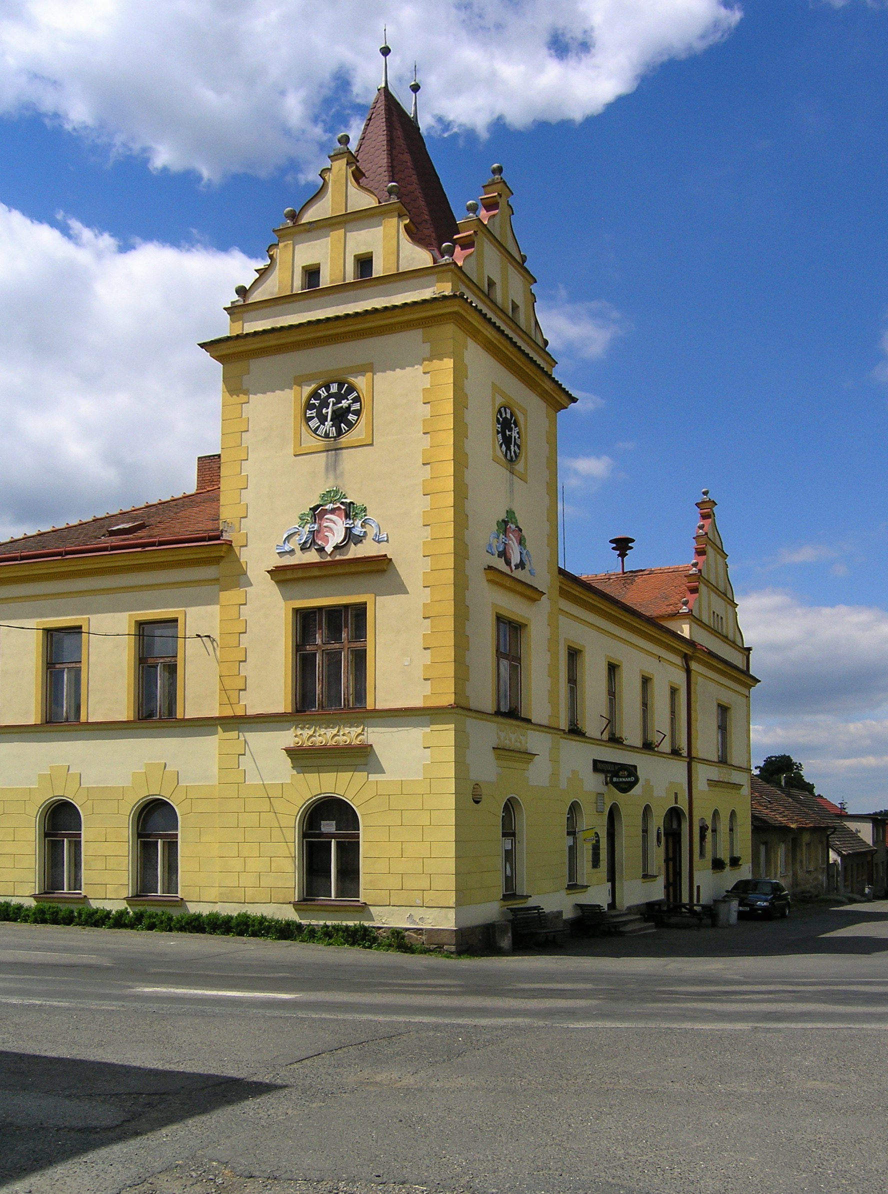 Town hall in Křivosoudov, Czech Republic